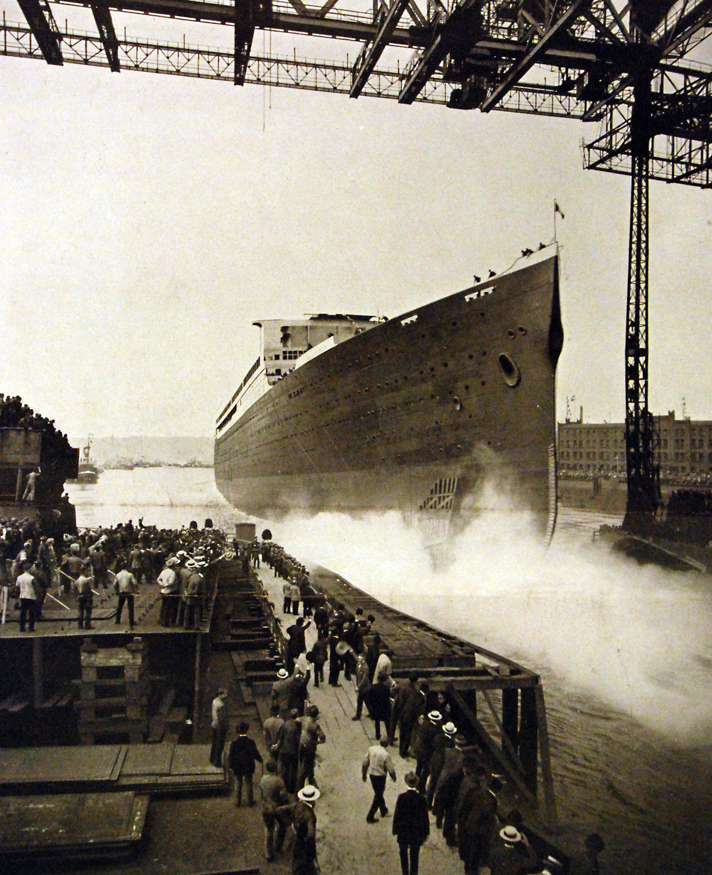 Lot 2771-6: Brochures for the Hamburg-American Line. German ocean liner Bismarck, the sister ship to SS Vaterland, Hamburg American Line. Being launched on June 20, 1914. Bismarck was turned over to Great Britain as compensation for the sinking of HMHS Britannic and served as RMS Majestic, later SS Majestic. Courtesy of the Library of Congress. (2016/07/08).